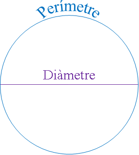 A circle indicating the diameter and the circumferènce.